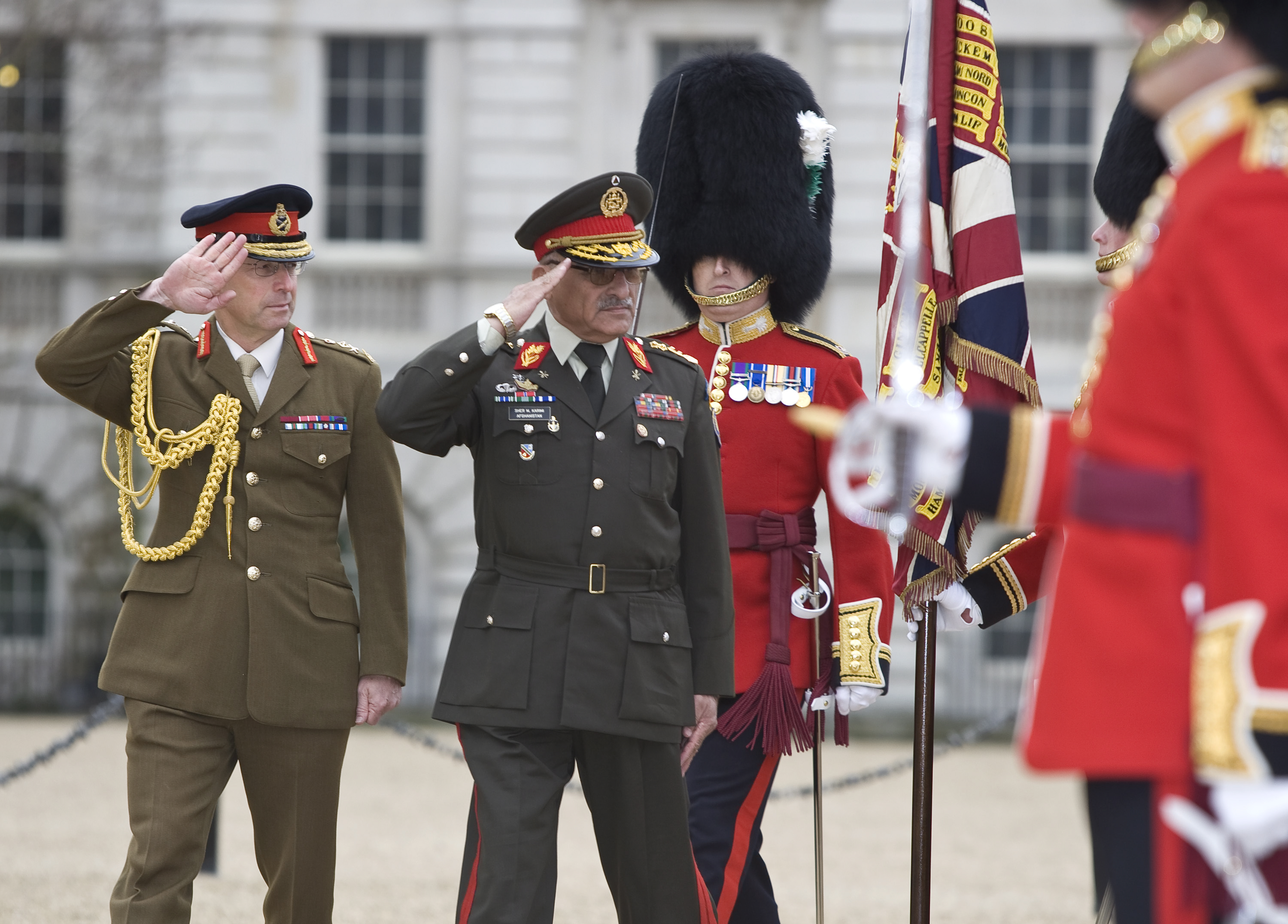 The Head of the Afghan National Army was today met by General Sir David Richards, Chief of the Defence Staff as he arrived in London for a three day visit with senior military commanders. General Sher Mohammad Karimi, Chief of the Army Staff, Afghanistan was received by a Guard of Honour formed by 1st Battalion Welsh Guards, and the Band of the Scots Guards at Horse Guards Parade this morning. Over the next two days he will meet with his opposite numbers in the Ministry of Defence to discuss ISAF operations in Afghanistan and the development of the Afghan National Army.